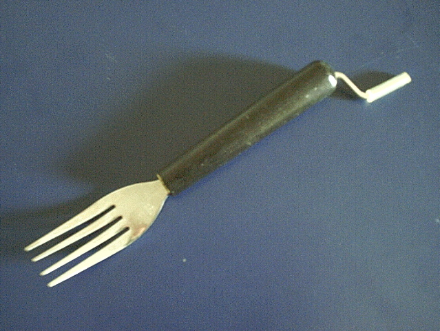 A spaghetti fork - a fork with a metal shaft loosely fitted inside a hollow plastic handle. The shaft protrudes through the top of the handle, ending in a bend that allows the metal part of the fork to be easily rotated with one hand while the other hand is holding the plastic handle. This supposedly allows spaghetti to be easily wound onto the tines.